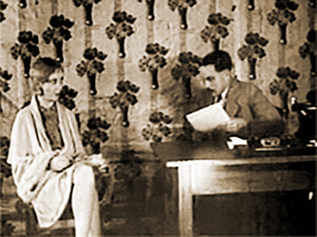 Frame from The Casting Couch (1924)